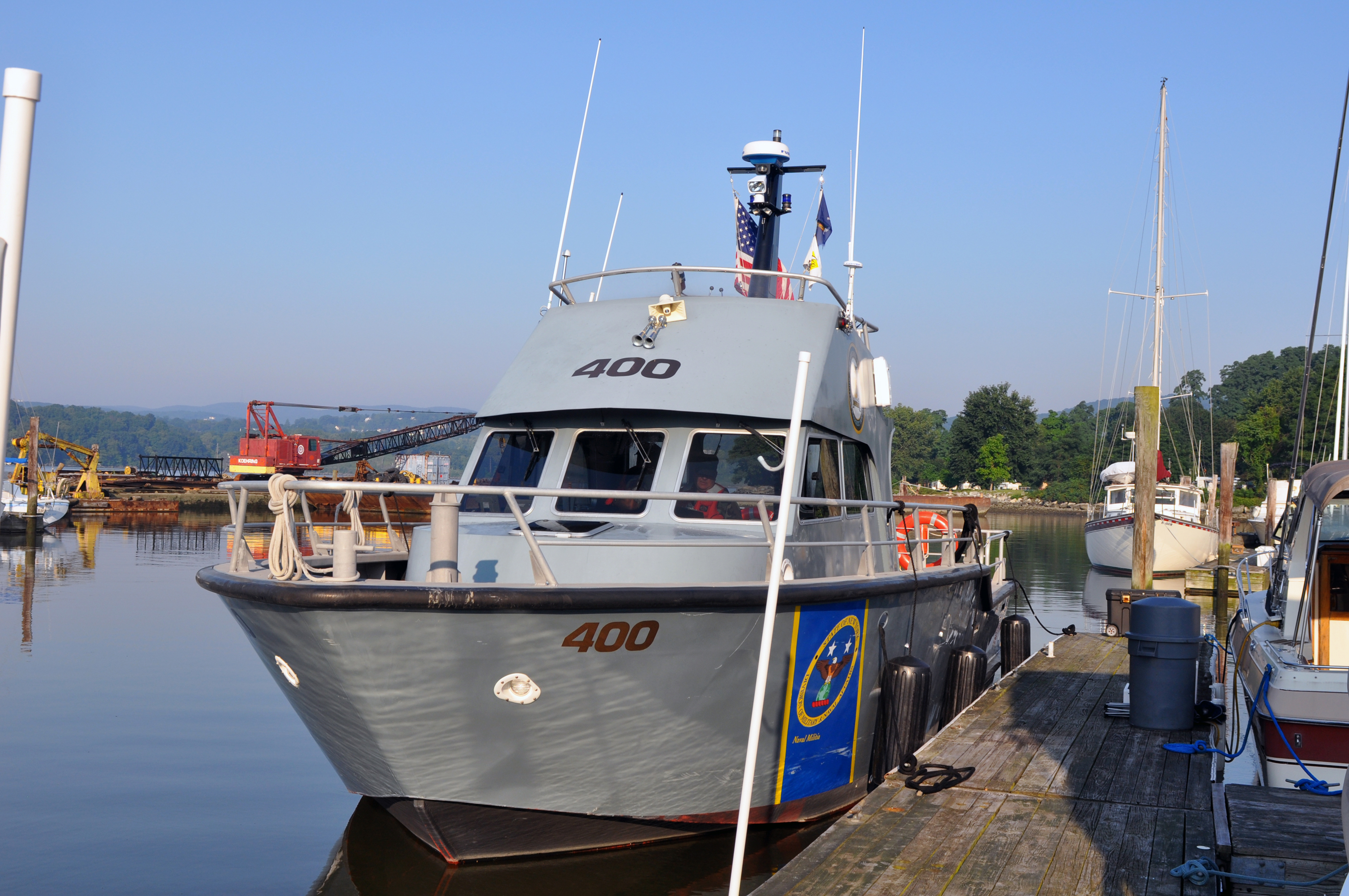 The New York State Naval Militia's Patrol Boat 400 is docked on the Hudson River on Aug. 26, 2009, prior to a random anti-terrorism measures program patrol off the Entergy Indian Point Energy Center in Buchanan, N.Y., by members of the New York National Guard's Joint Task Force Empire Shield, which has been continuously providing military support to civilian authorities since the terrorist attacks of Sept. 11, 2001. (U.S. Army photo by Staff Sgt. Jim Greenhill) (Released)